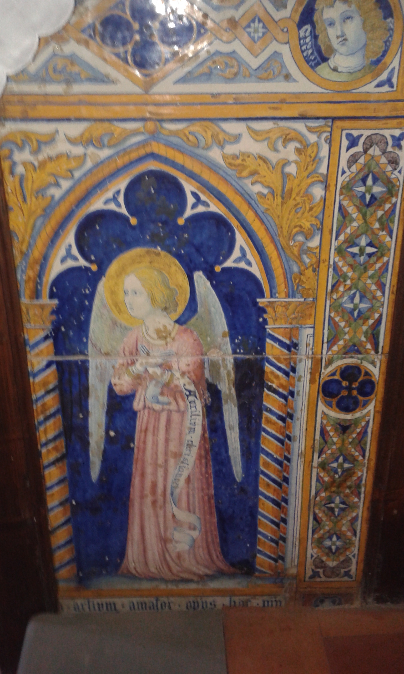 Cappella del Rosario altare di angelo micheletti del 1890, lato di destra